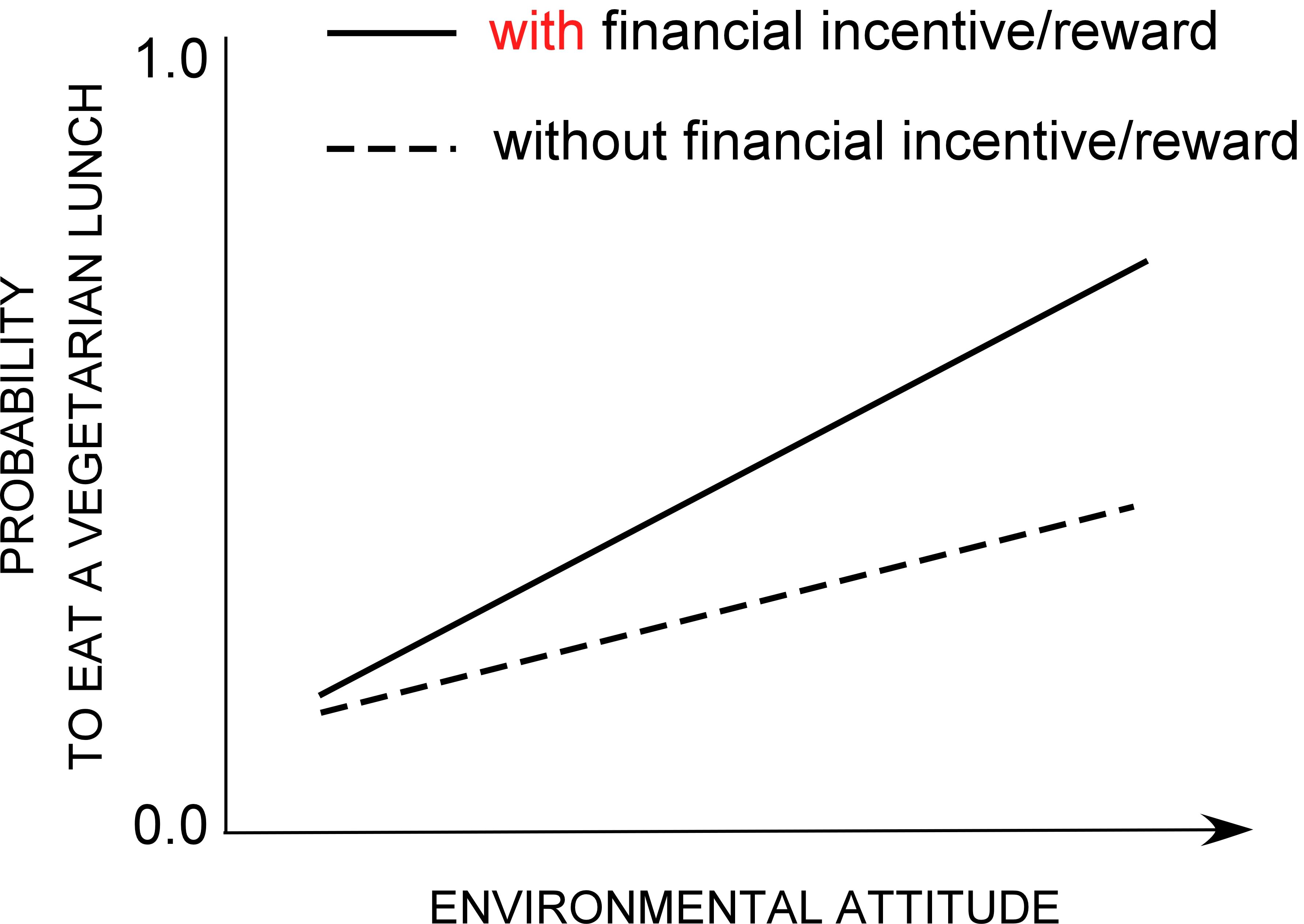 Example of conjunctive (moderated) explanation of behavior (here: pro-environmental behavior).